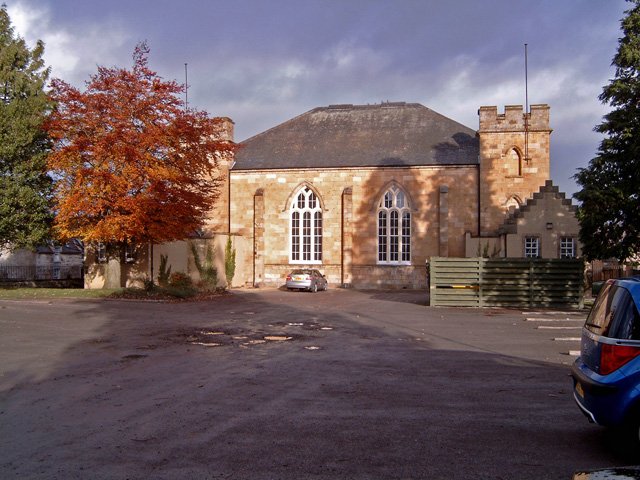 St Duthac Centre, Stafford Street, Tain Formerly Tain Parish Church